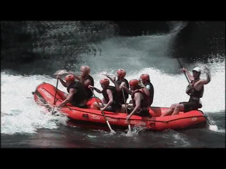 North of Jinja, UGANDA